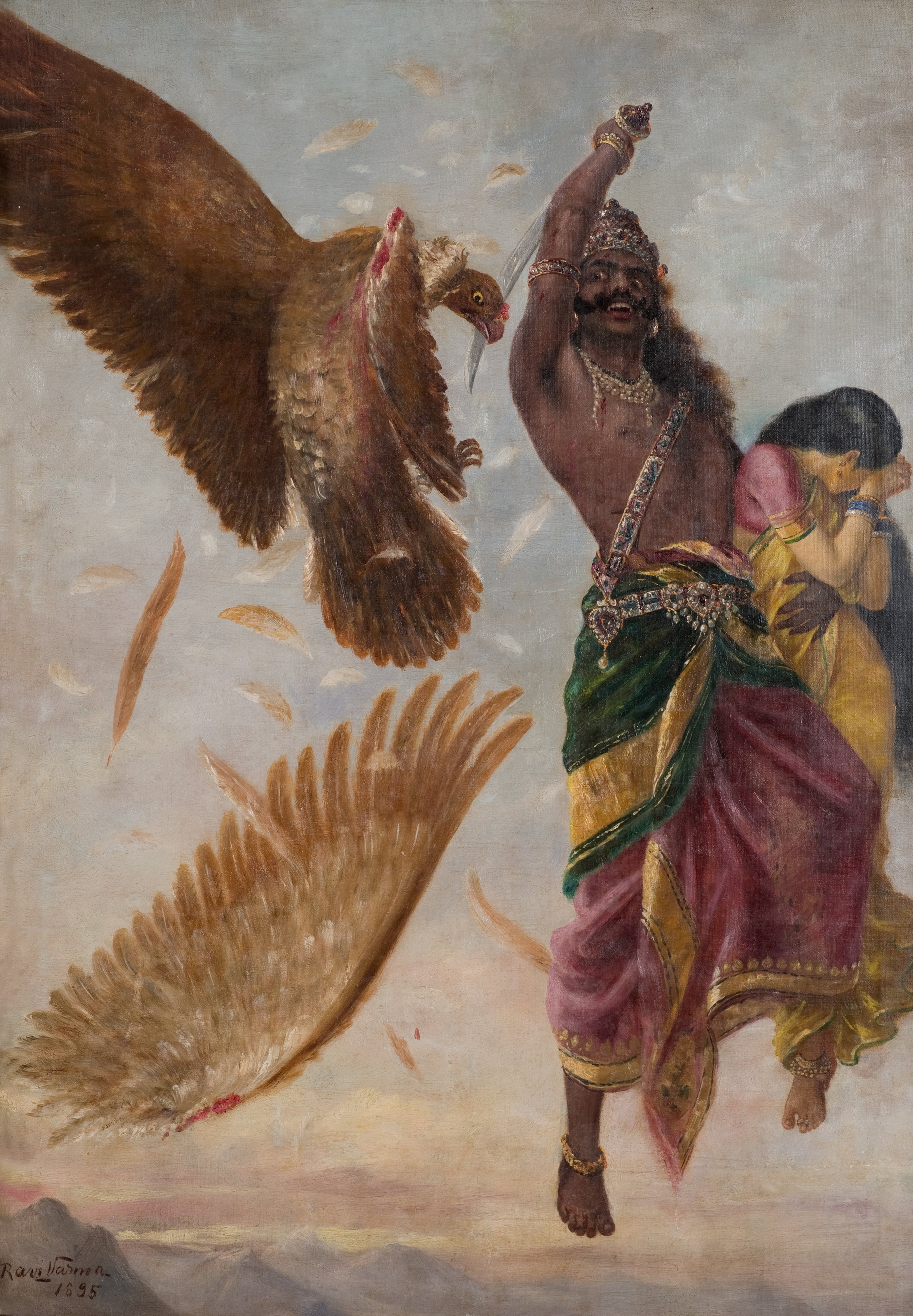 Seetha horrified seeing Ravana cutting Jatayu's wing.